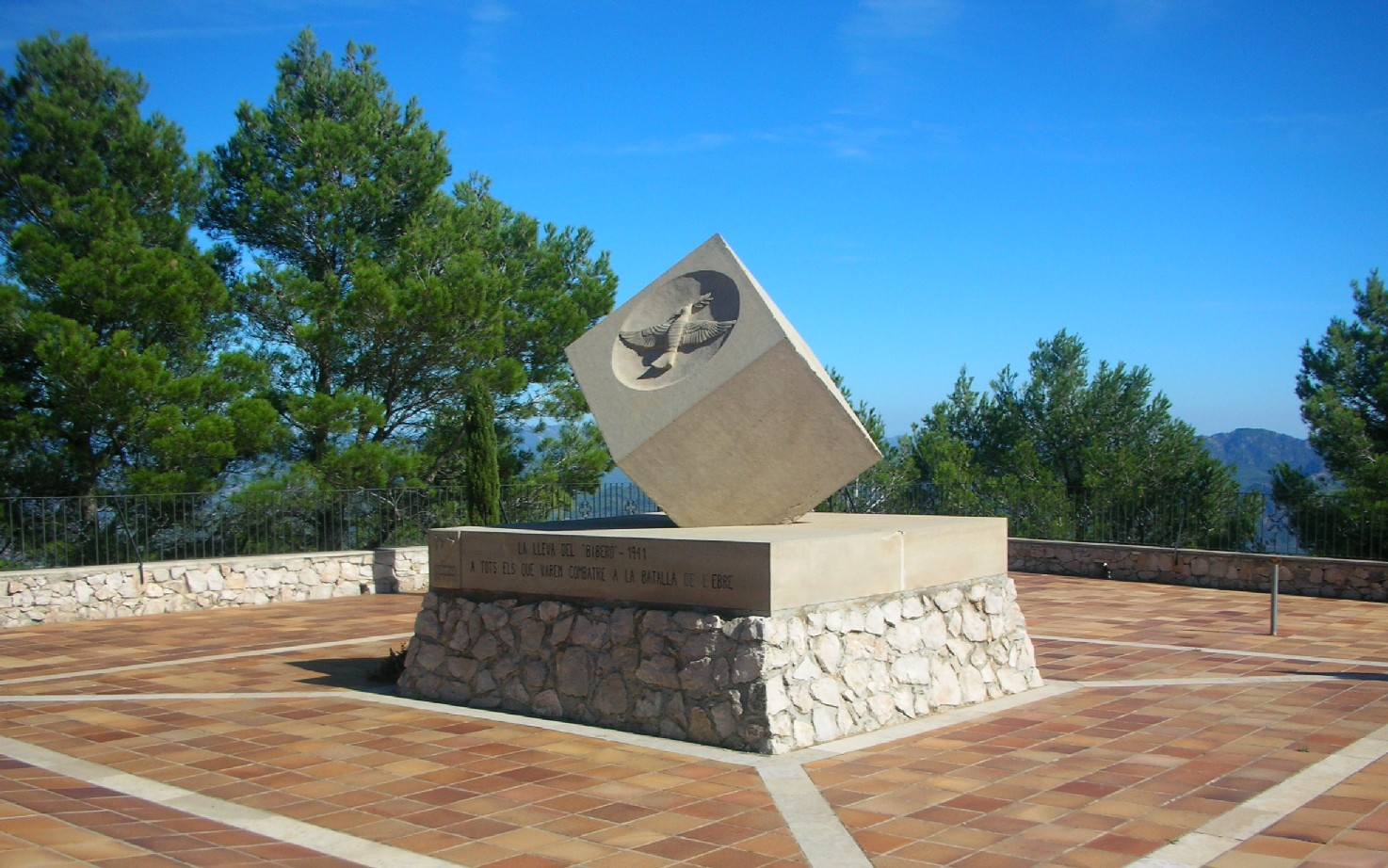 Peace monument (Monument a la Pau) on cota 705, Serra de Pàndols